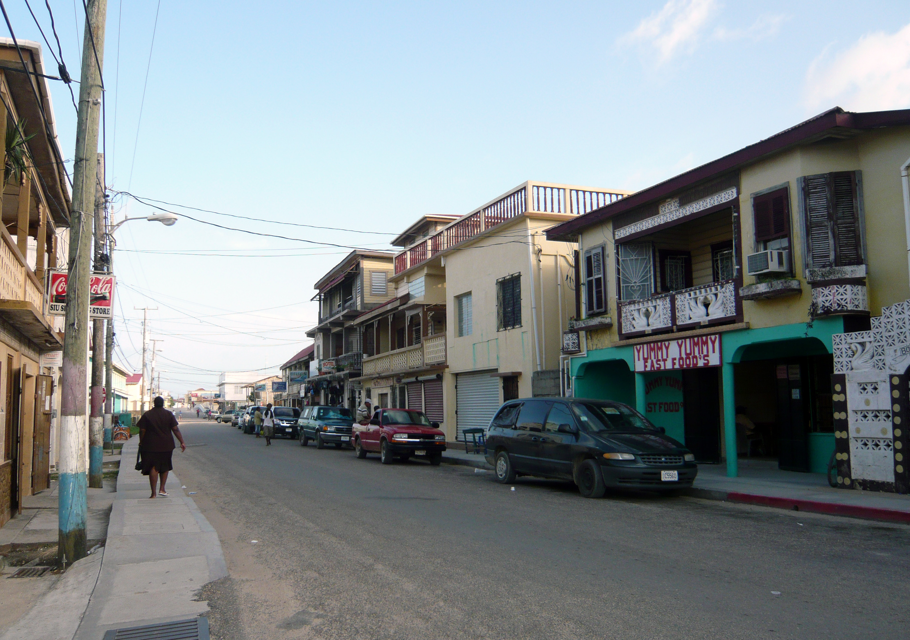 Main street in Dangriga, Belize